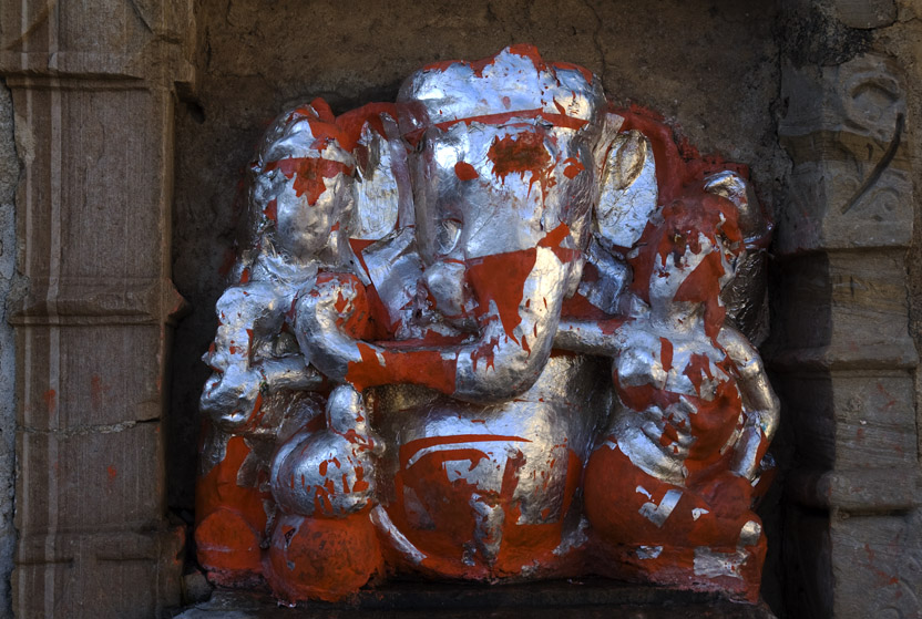 An ancient idol of Ganesh, the Elephant headed God at the historic Chittorgarh Fort, Rajasthan.